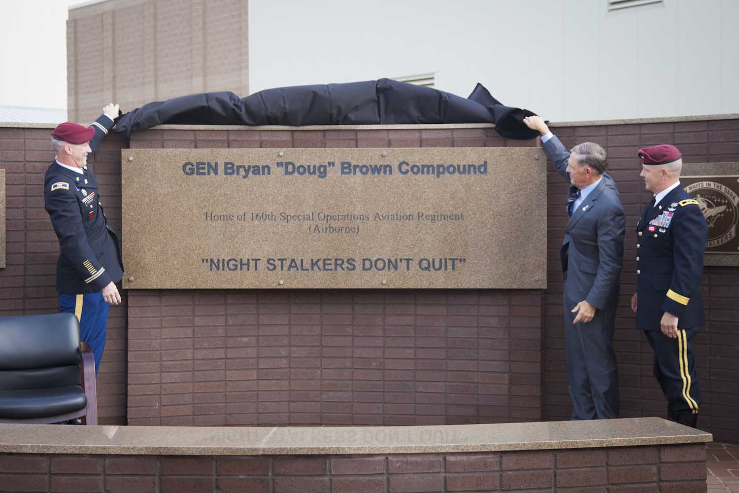 From Left to Right: Col. John Thompson, regiment commander, 160th Special Operations Aviation Regiment (Airborne), retired Gen. Bryan “Doug” Brown, and Maj. Gen. Kevin W. Mangum, commanding general, United States Army Special Operations Aviation Command unveil the new sign greeting visitors to the home of the 160th SOAR (A). (160th Special Operation Aviation Regiment photo)